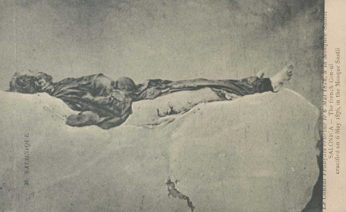 French consul of Thessaloniki Jules Moulin body - 1876